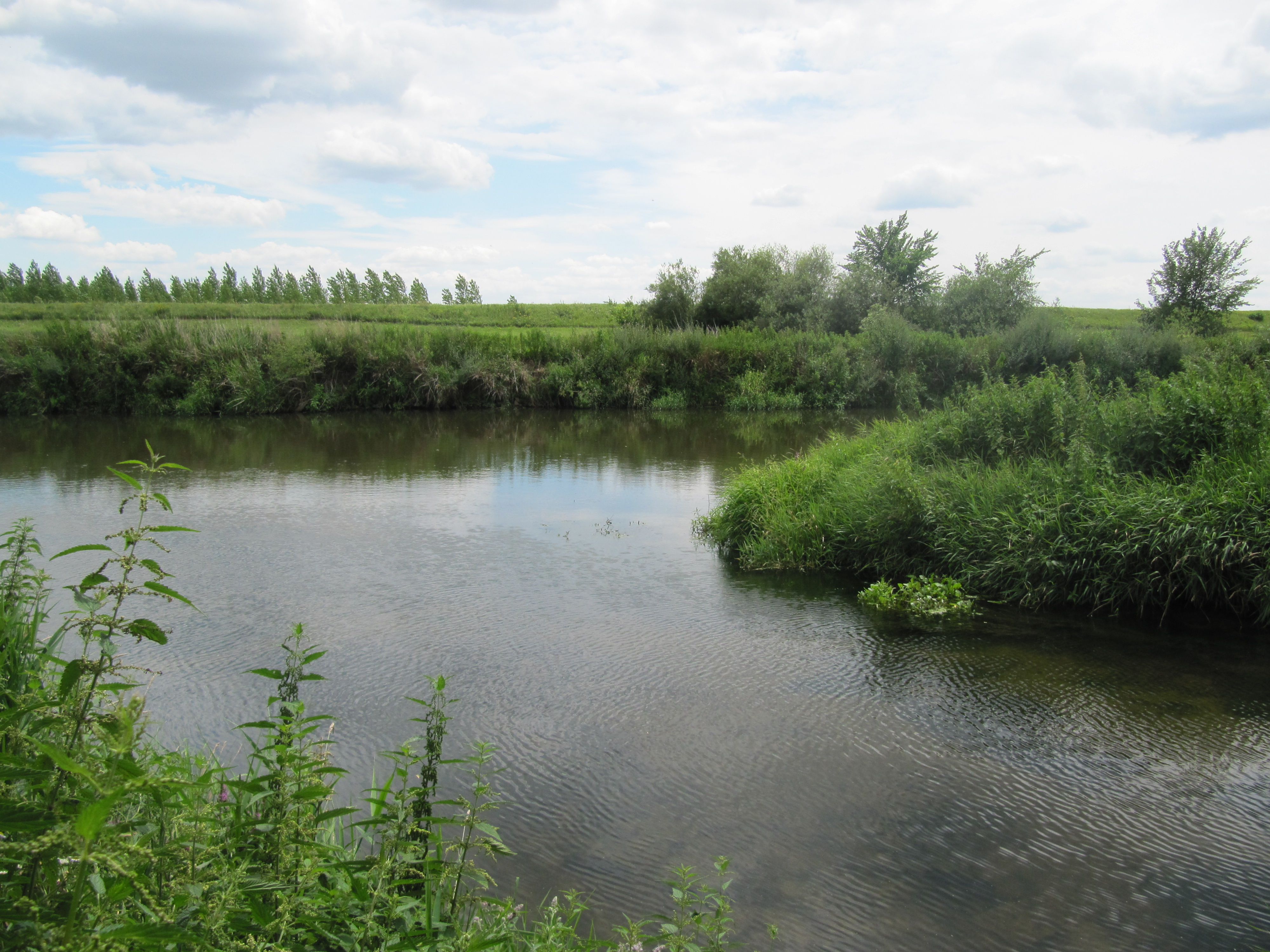 Jevišovka in Břeclav District, Czech Republic. Confluence of Jevišovka and Dyje (Thaya).